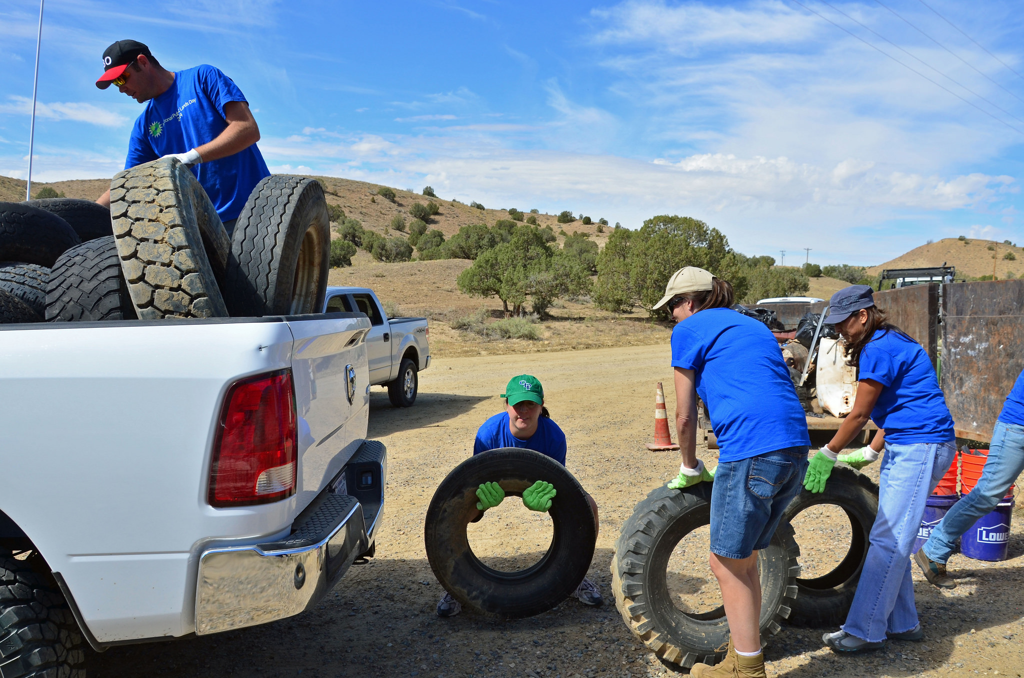 The Farmington Field Office hosted a National Public Lands Day event at Glade Recreation Area and Piñon Mesa Recreation Area. They had 192 volunteers, and collected 6-50 cubic foot dumpsters of trash, including tires, refrigerators, and air conditioners. In attendance was John Rusen (pictured here with Seymour the Antelope) who is 97 years and 3 days old. He says, "When you get my age you count every day!" The BLM wants to thank him for spending this day improving his public lands.